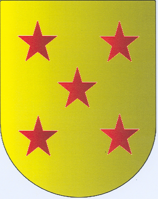 Costa of arms of the Coutinho family, counts of Marialva and counts of Loulé